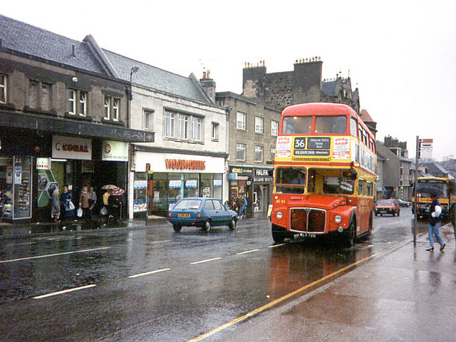 A rainy day in Johnstone High Street, Scotland. The white fronted shop is a branch of Woolworths. A long standing fixture of the town, it finally closed in 2009 when the national retail chain folded. The bus was less long lived, one of the Clydeside Scottish Routemasters which were only used between 1985 and 1990. This bus, RM720 (no. JC51, reg. WLT 720), is pulling into the bus stop while operating route 36 from Glasgow to Kilbarchan Wheatlands, via Johnstone Centre, Paisley & Ibrox. The coach behind is probably operating a Scottish Citylink long distance service. The orange bar on top of the bus stop flag denotes that it is within the Strathclyde PTE area.